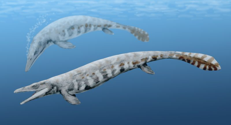 Halisaurus arambourgi, a mosasaur from the Late Cretaceous of Morocco. Digital.